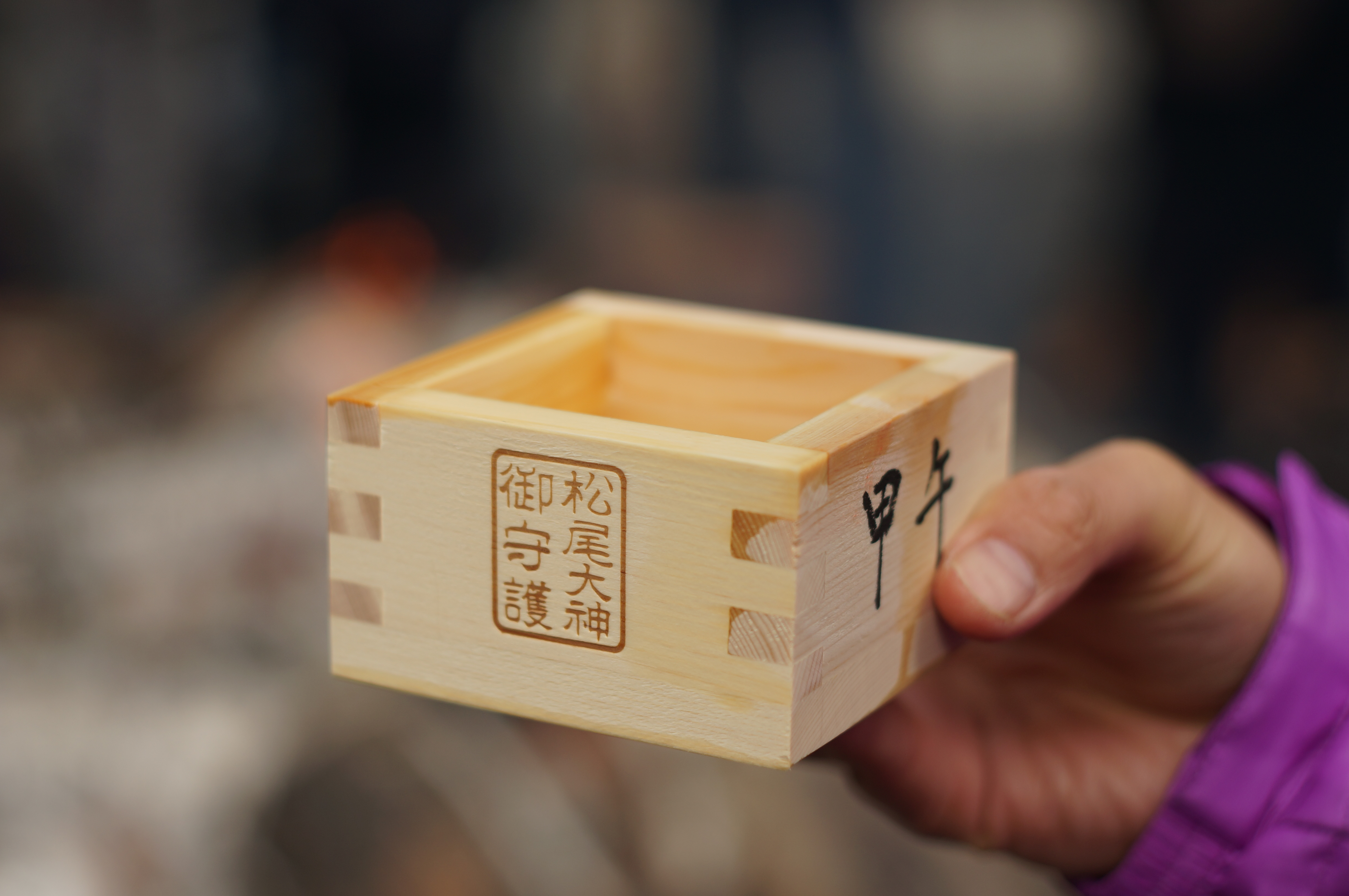 お神酒 Newyear's Sake 松尾大神 御守護 甲午